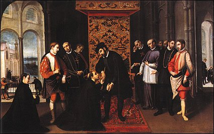 Saint Francis Xavier appealing with João III of Portugal.